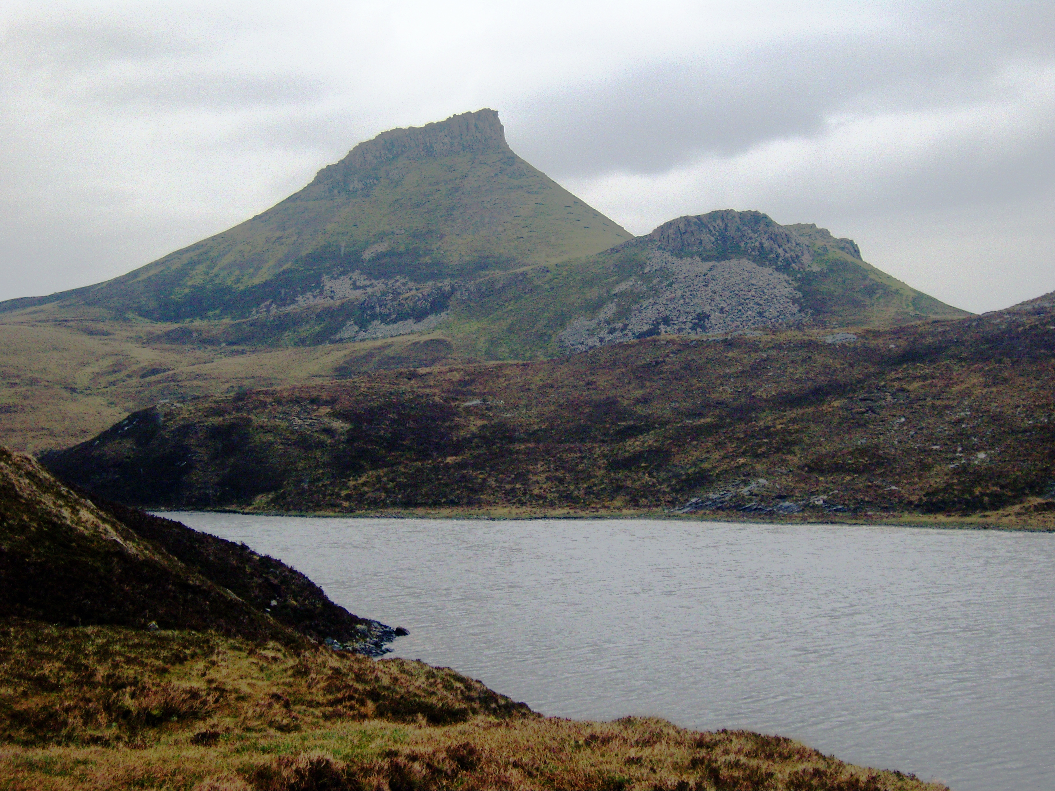 Dun Caan, on the Island of Raasay